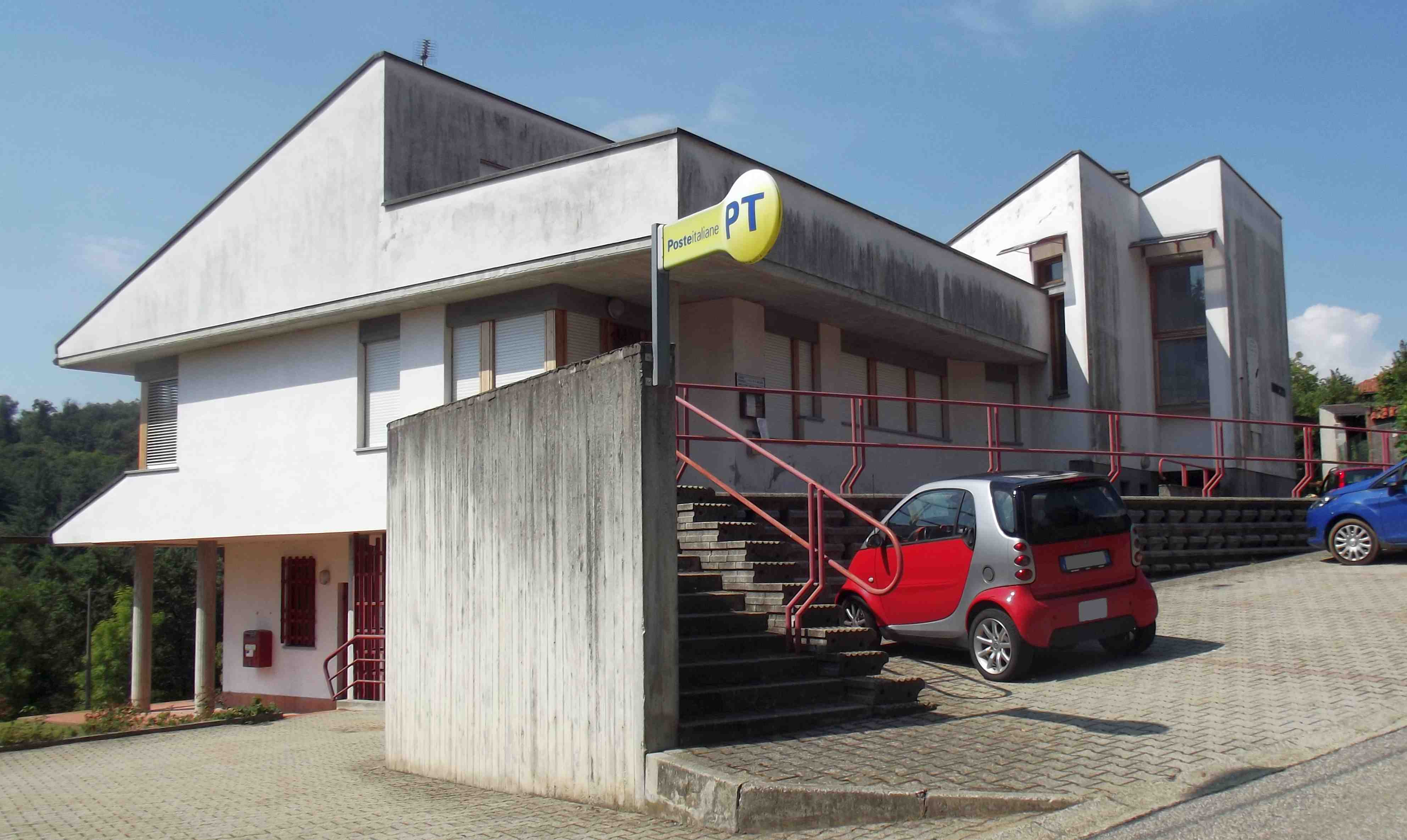 Torrazzo (BI, Italy): town hall